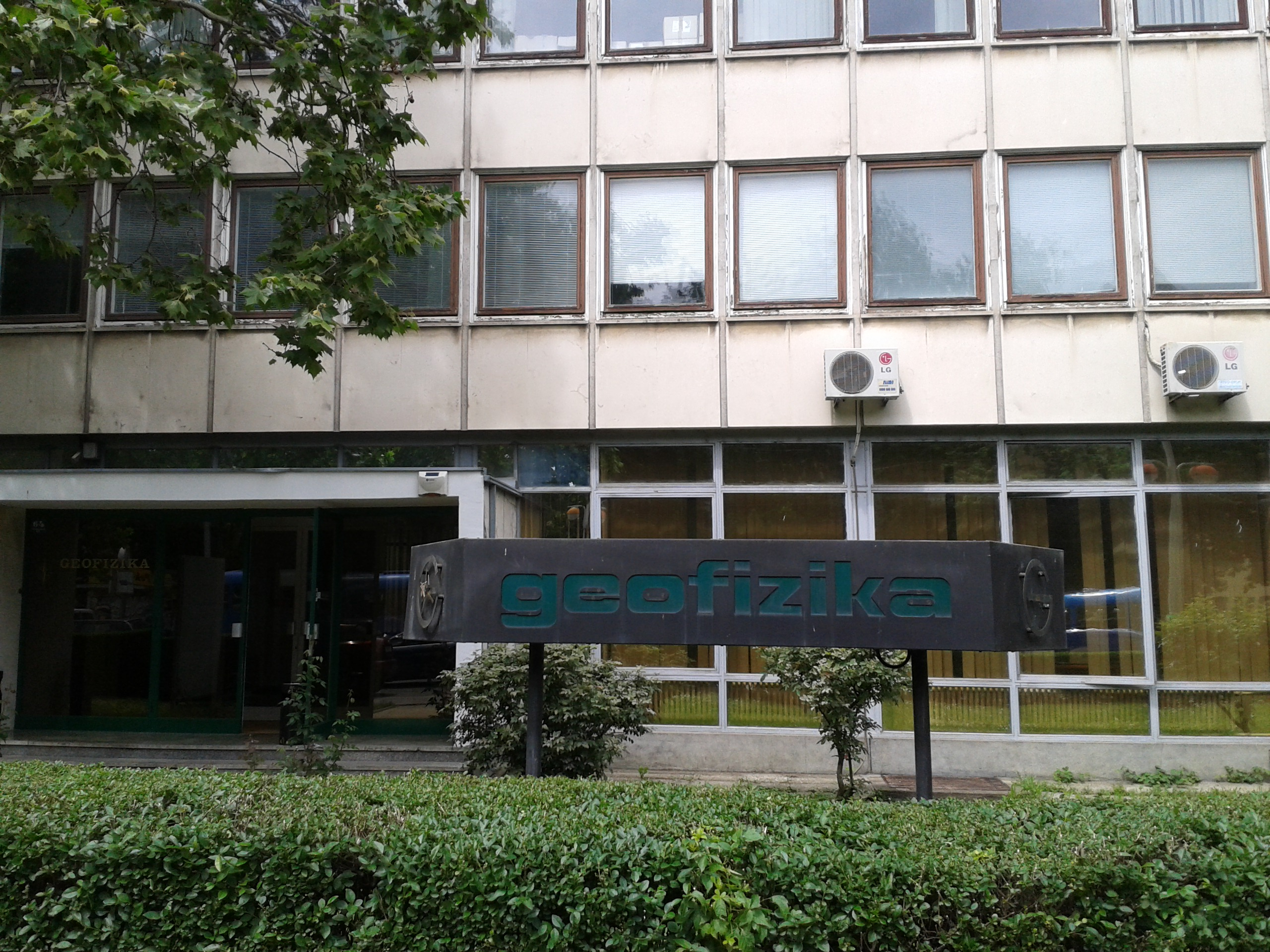 Geofizika Ltd. Building, Sava cesta 64, Zagreb.